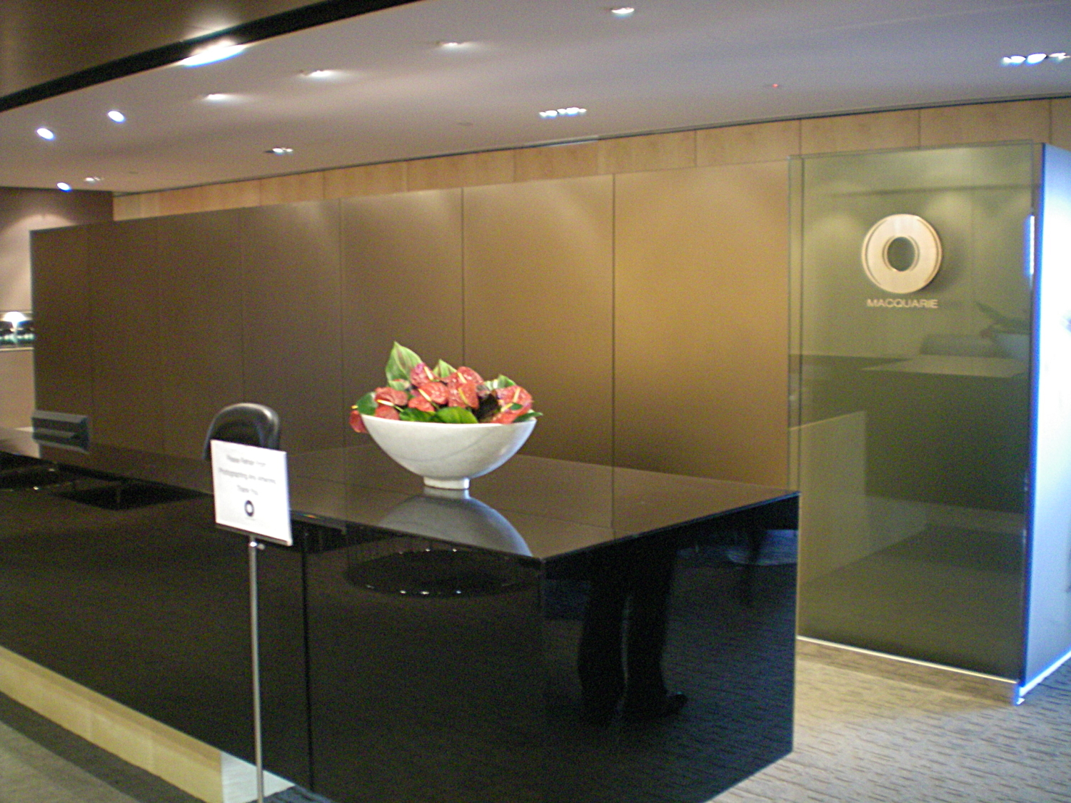 Macquarie Group's headquarters in Melbourne, located at 101 Collins Street.